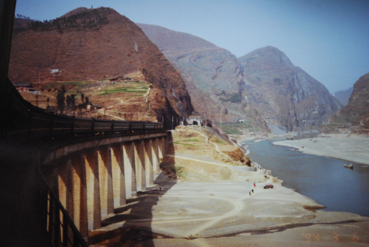 Chengkun Railway